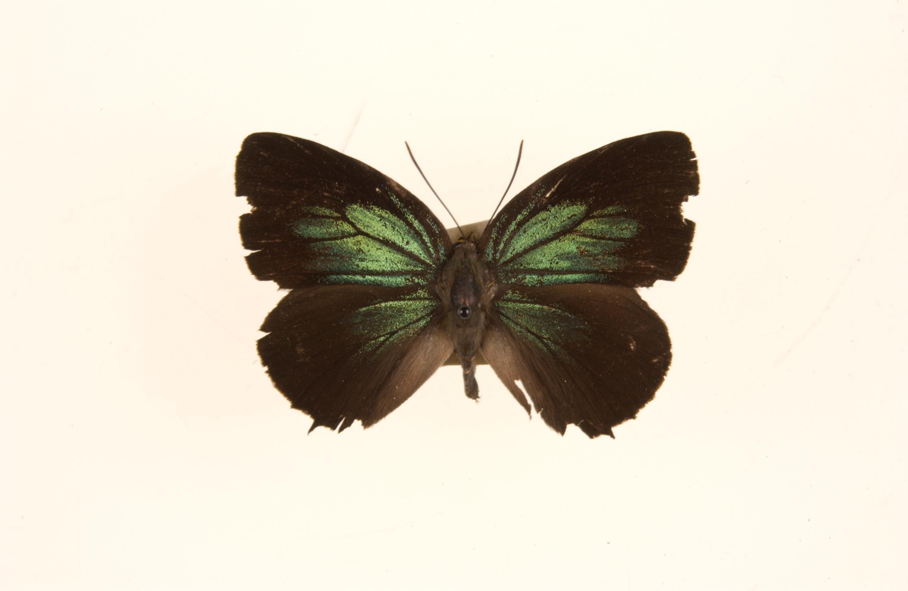 Arhopala horsfieldi Male